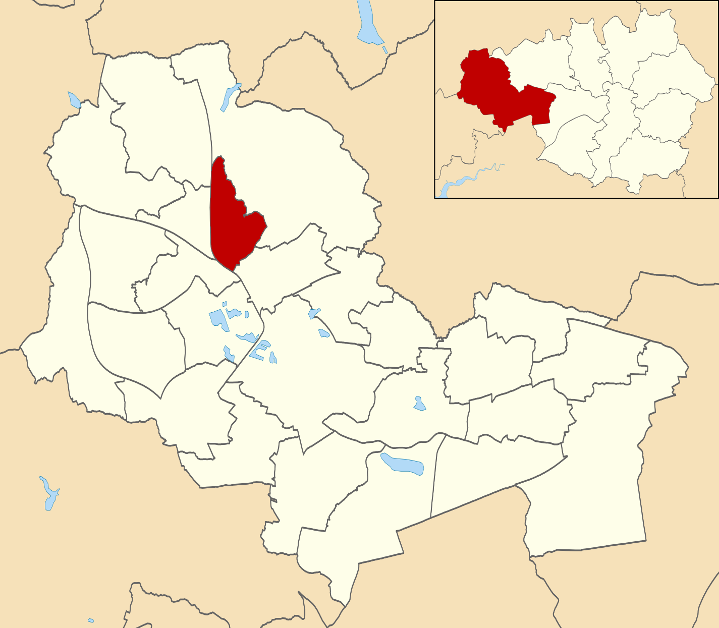 Map showing the location of Wigan Central ward within Wigan Metropolitan Borough Council